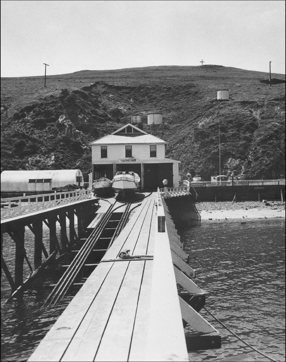 Lifesaving Station at Point Reyes National Seashore. The station from 1927 is situated at Chimney Rock on the southern shore was closed in 1968 and designated a National Historic Landmark in 1989. The picture shows the front of the boathouse, the launchway with its railway, the 36' lifeboat and a 26' surfboat.